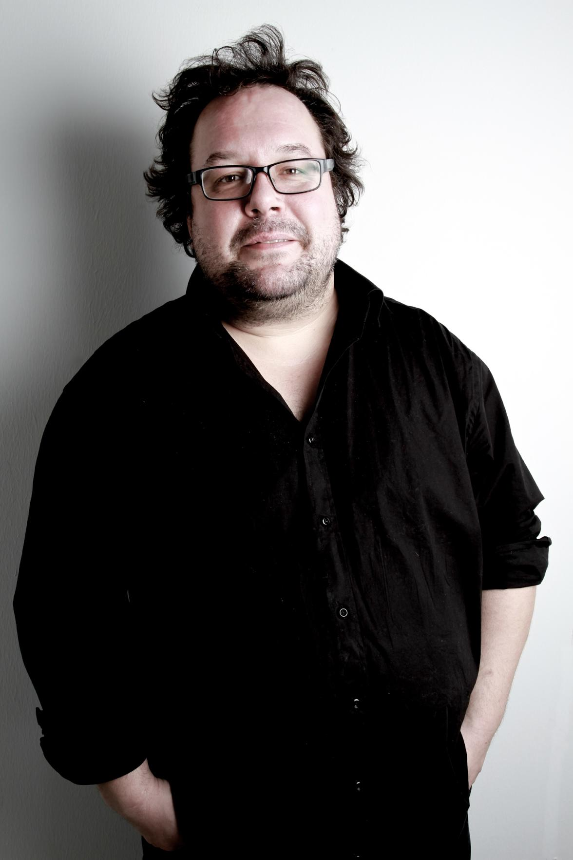 Official picture of Högberg